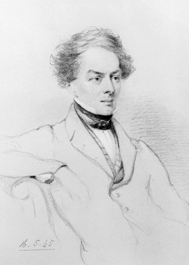 Sir Charles Fellows (31 August 1799 - 8 November 1860) was a British archaeologist. (cropped picture)